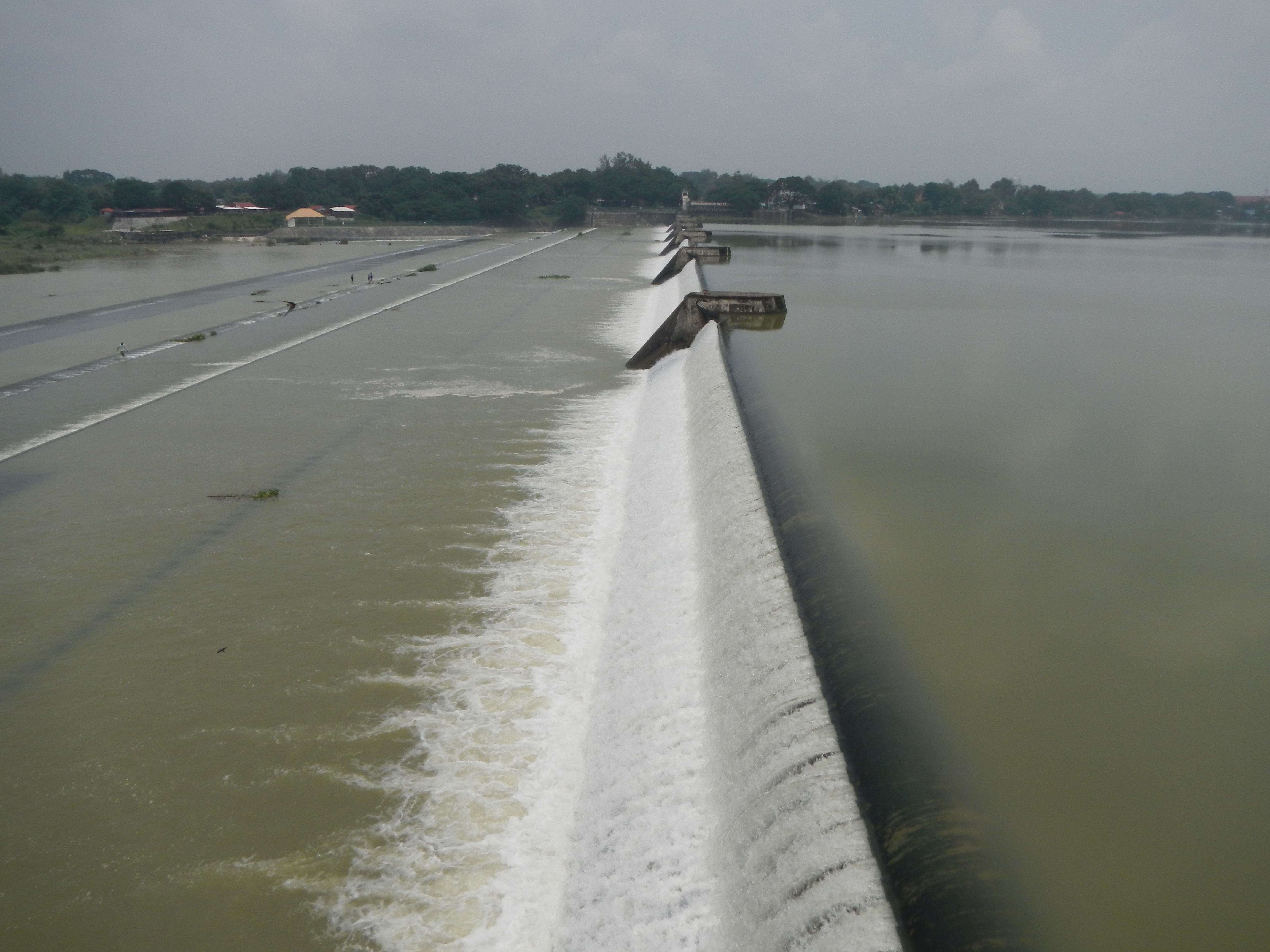 Angat Dam[1][2]